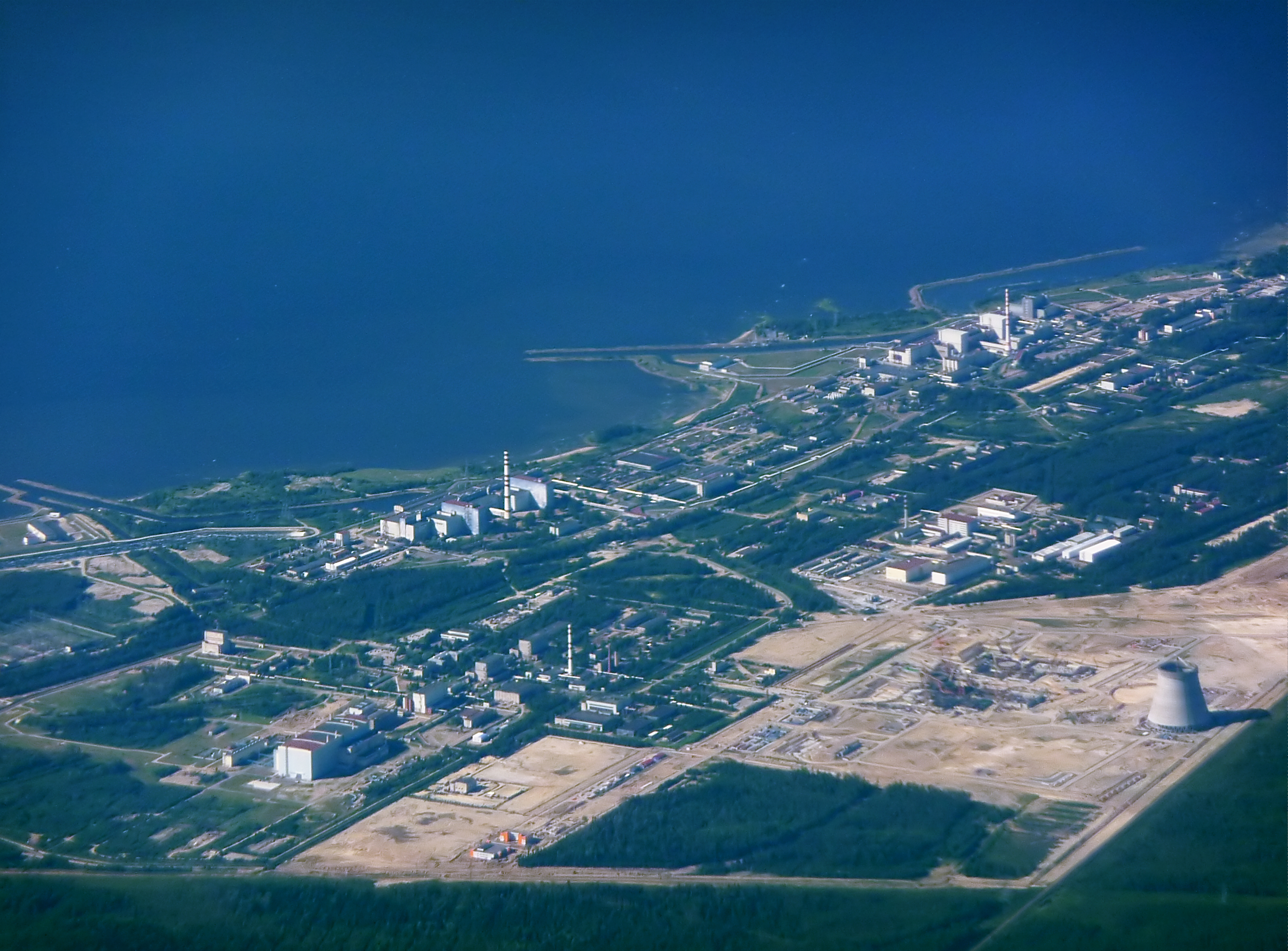 Site of the Nuclear Power Plant Leningrad, including the construction site of the Nuclear Power Plant Leningrad II; photo taken from an airplane.